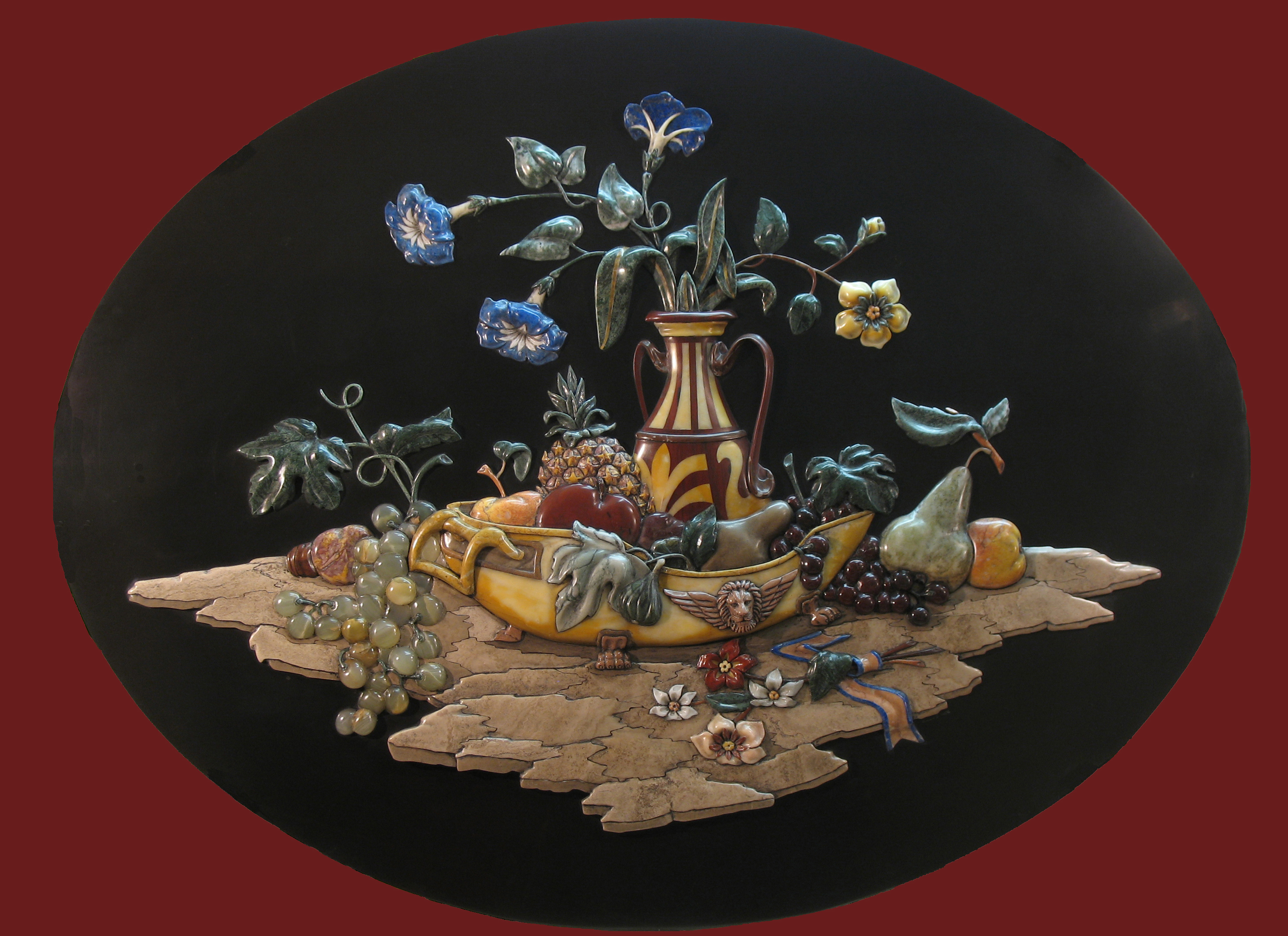 Inlays of marble and semiprecious stones carved in relief